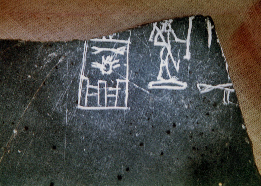 Fragment of a vase of shale (slate) engraved with the name of Horus Anedjib and representation of a statue of the king. Provenance: Saqqara. Found north of the pyramid of King Djeser. It is likely that earlier, the original vase was stored in one of the galleries beneath the pyramid. Now in the Egyptian Museum, JE. 55259. This fragment, found north of the Step Pyramid of King Djeser and published by Gunn, curiously shows the image of a statue of the same sovereign in a striding position. The rectangular bases where they land their feet, confirm that there is a representation of the sovereign itself, if not one of his statues. This significant fact confirms the importance of the production of sculptures during the reign of Anedjib, although to date we have not found any of them. Gunn. A.S.A.E., XXVIII, p. 158, pl. I, No. 6